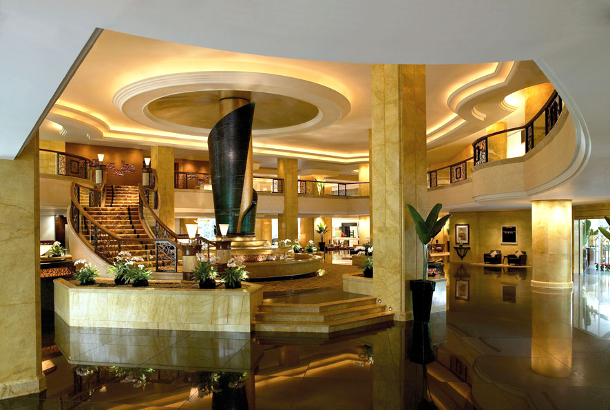 Main Lobby at Shangri-La Kuala Lumpur